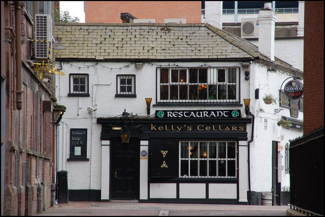 Kelly's Cellars, Belfast Kelly’s Cellars, in Bank Street, off Royal Avenue, was built in around 1780. It is one of Belfast’s best-known bars and is reputed to have been a place where the United Irishmen plotted the rebellion of 1798